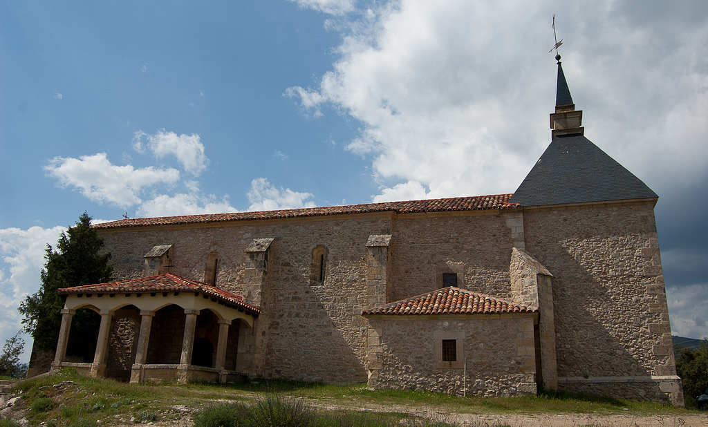 Enebrales Hermitage, in Tanajón, Guadalajara, Spain.